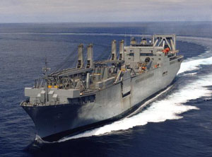 image of the USNS Shughart